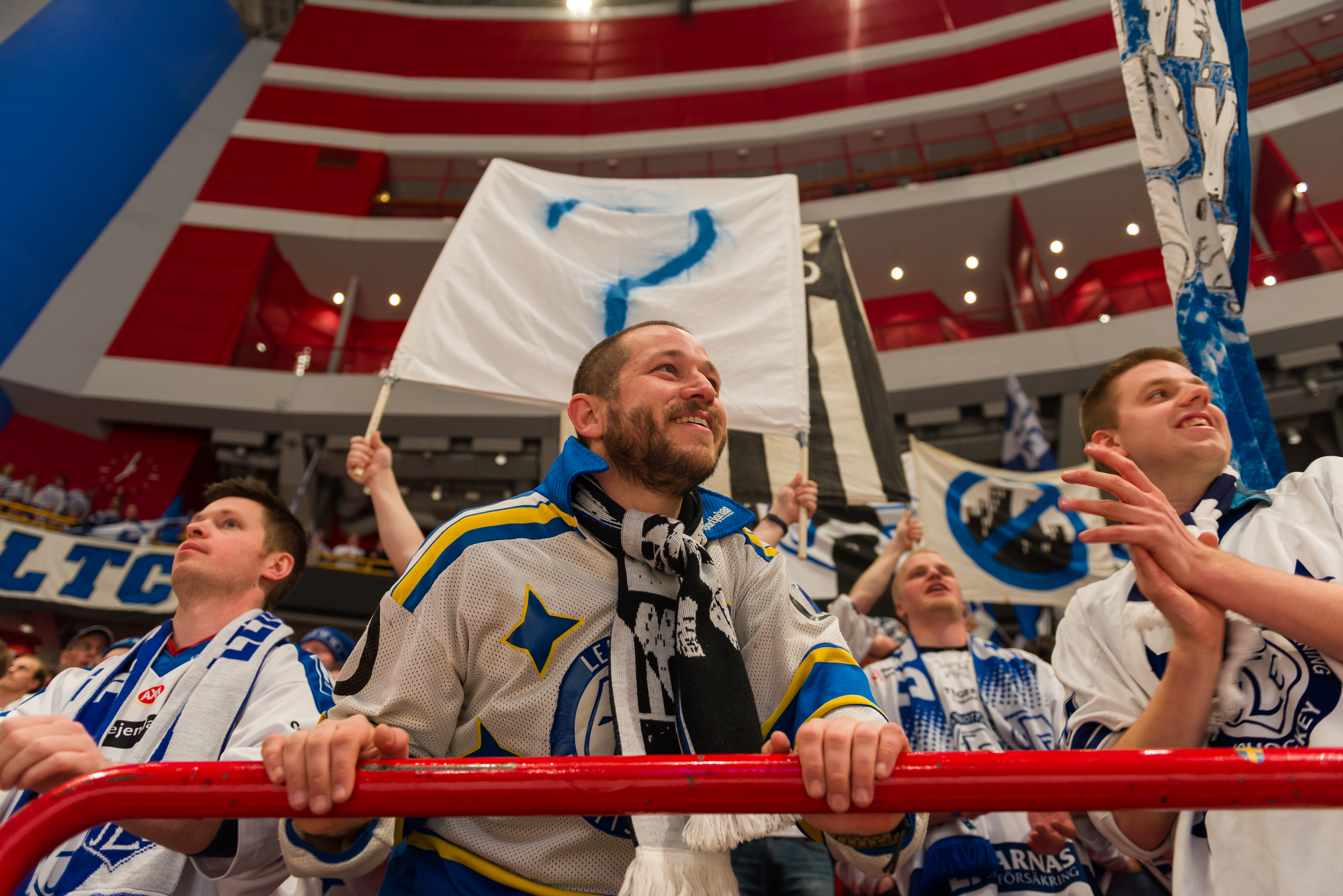 Supporters from Leksand IF. Match between Leksand and Mora in Hockeyallsvenskan (Swedish second league), Stockholm 2013-01-05.